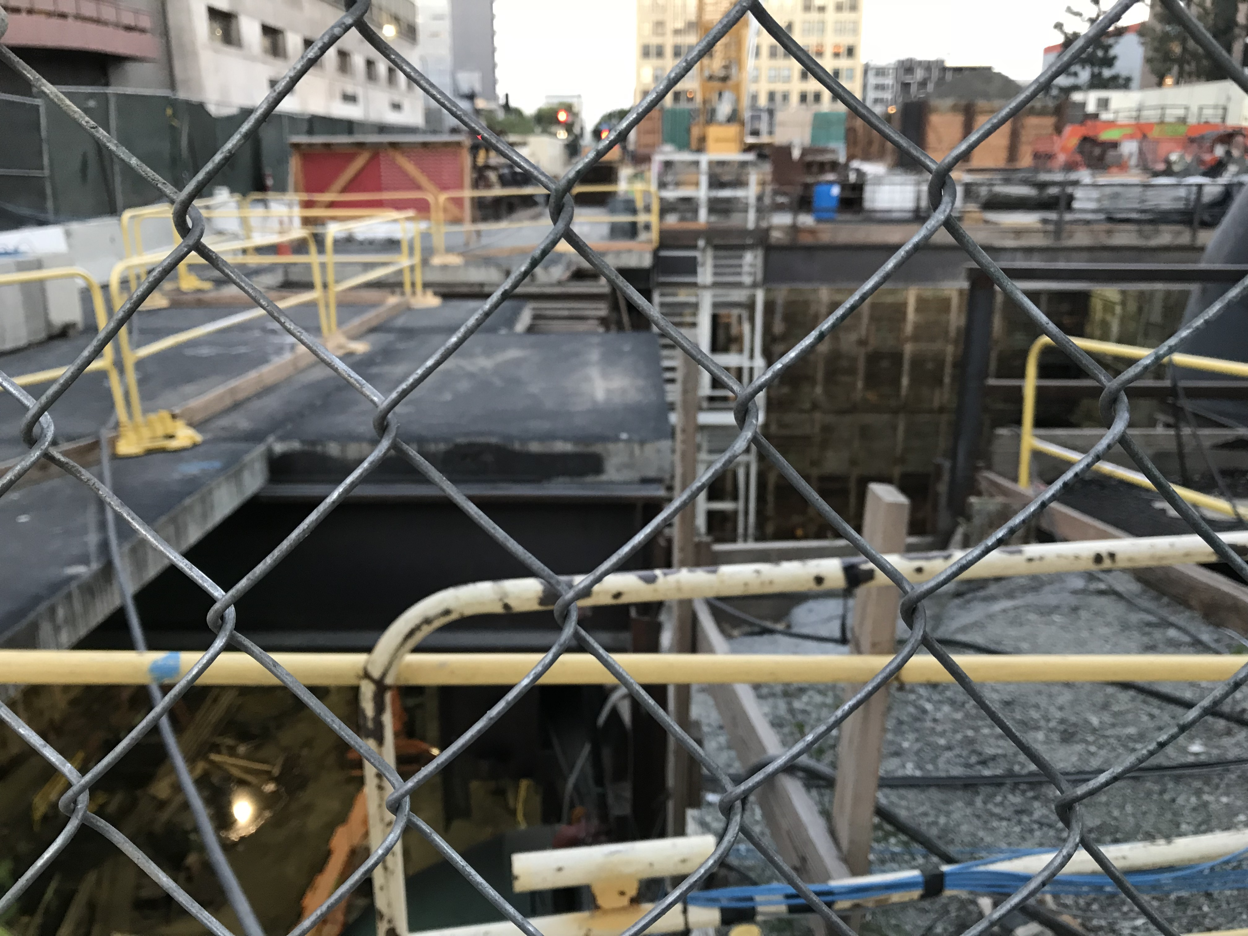 Historic Broadway station under construction in downtown Los Angeles